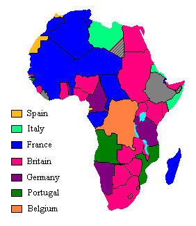 Map showing European claimants to the African continent in 1913